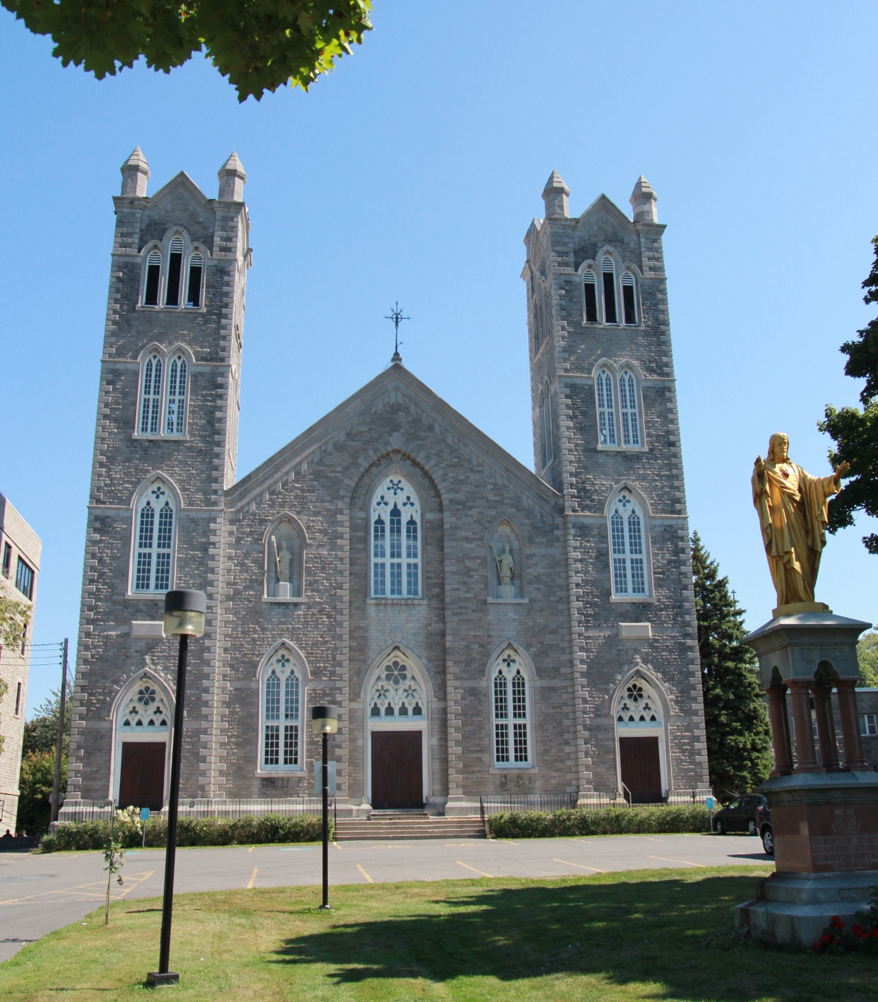 Front view of the Eglise de Saint-Laurent